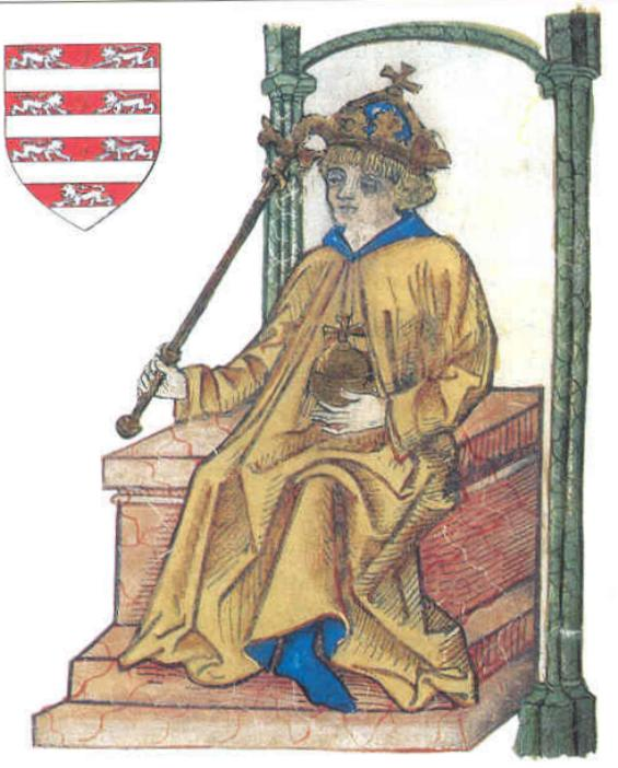 Representation of III.Lázlo (Ladislaus III, Ladislau III)